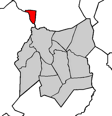 Location of the parish of O Temple in the municipality of Cambre (Galicia, Spain)